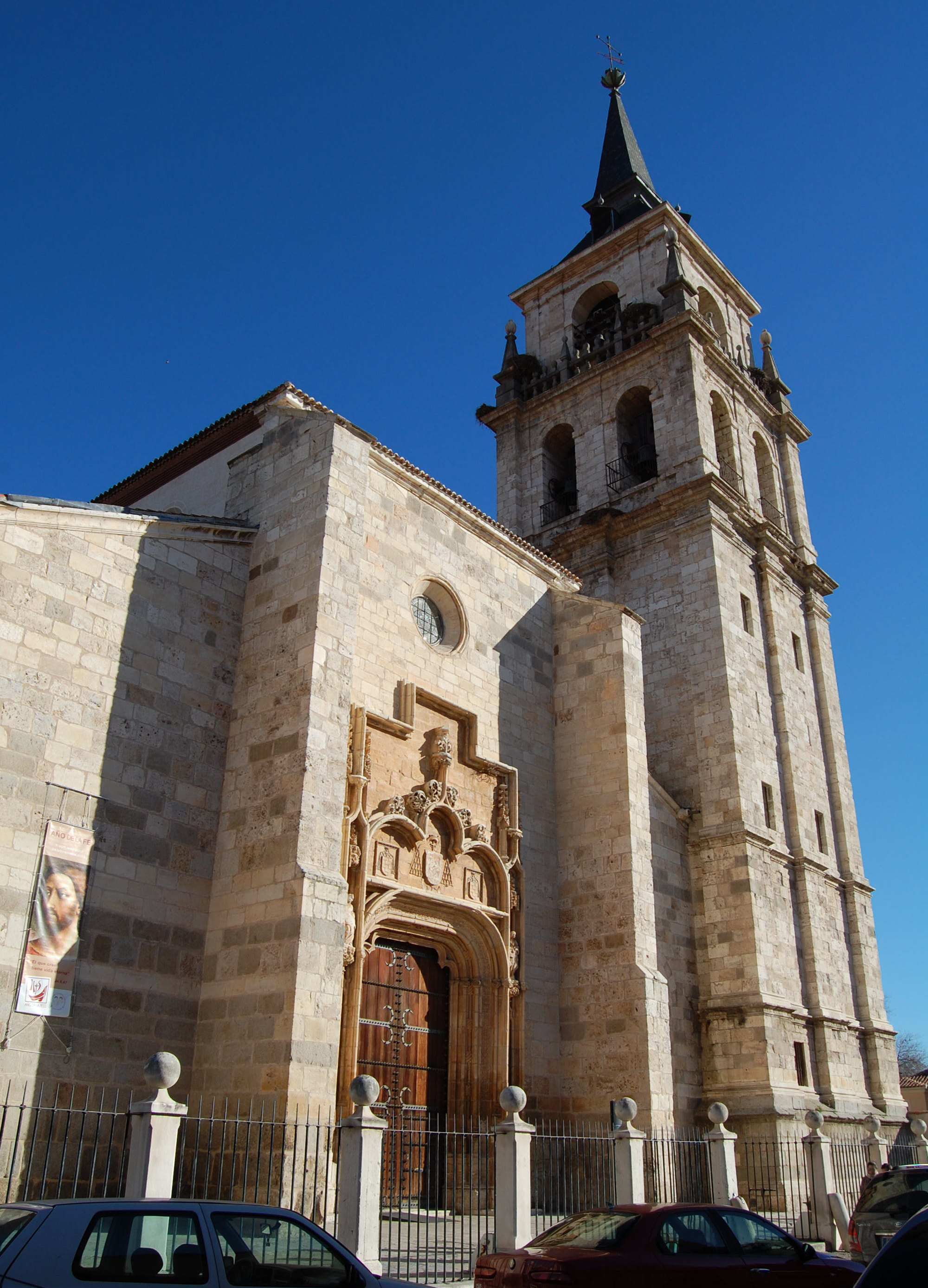 Facade of the Cathedral of St Justus and St Pastor in Alcalá de Henares (Community of Madrid - Spain).